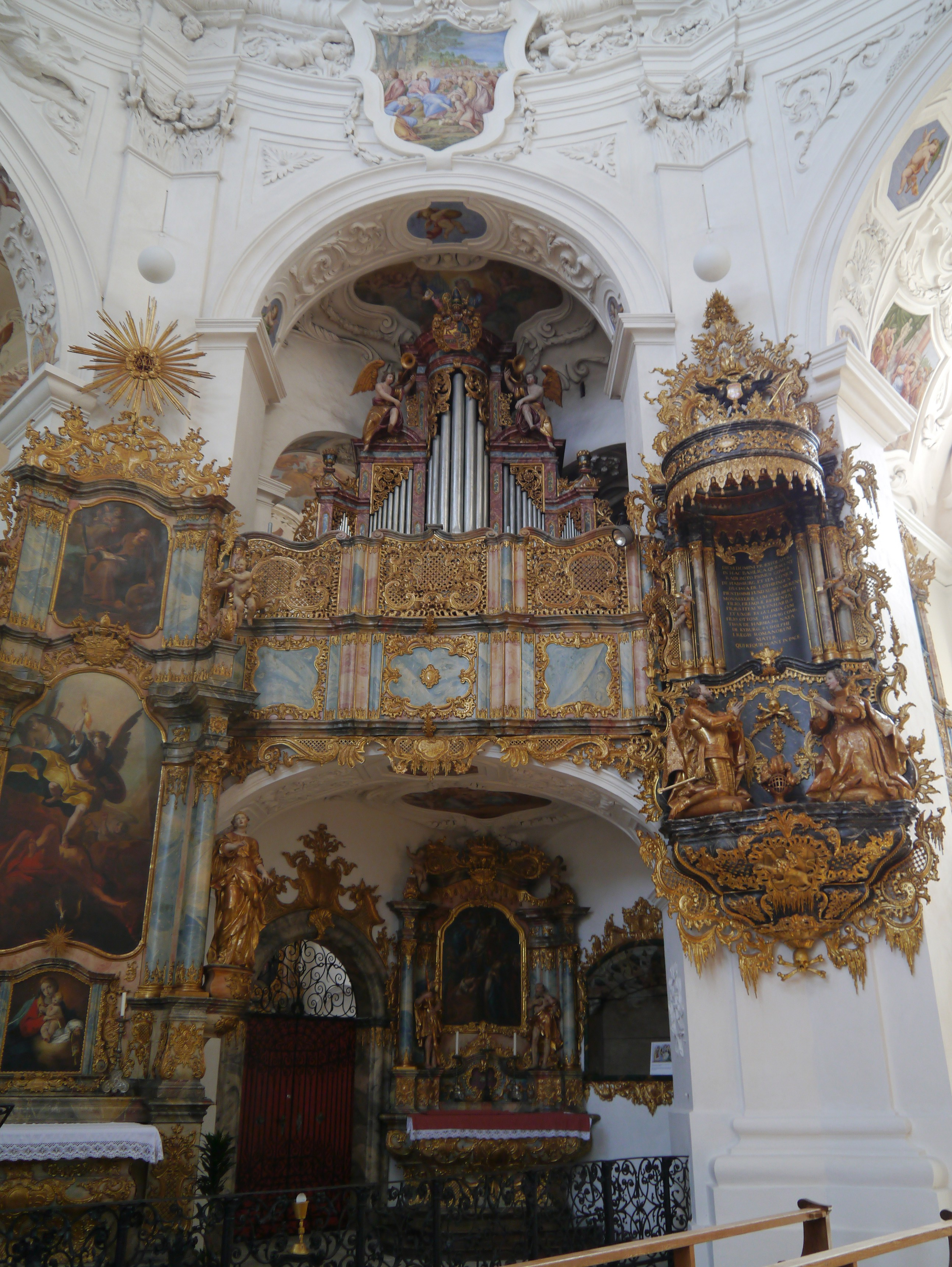 Side organ of Muri Abbey Church, Muri, Canton of Aargau, Northern Switzerland